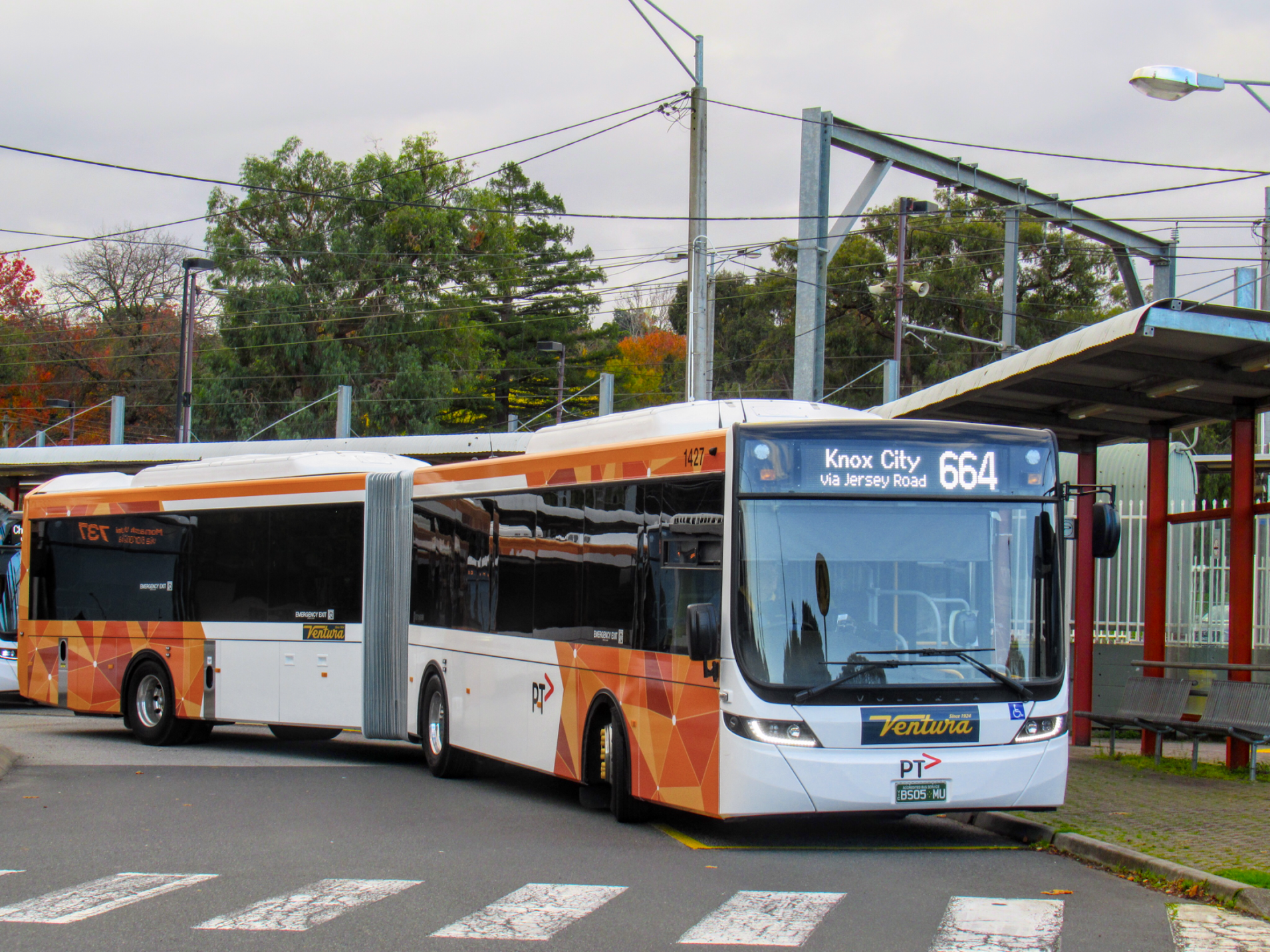 Ventura Lilydale 1427 a Scania K360UA Volgren Optimus on route 664 at Croydon